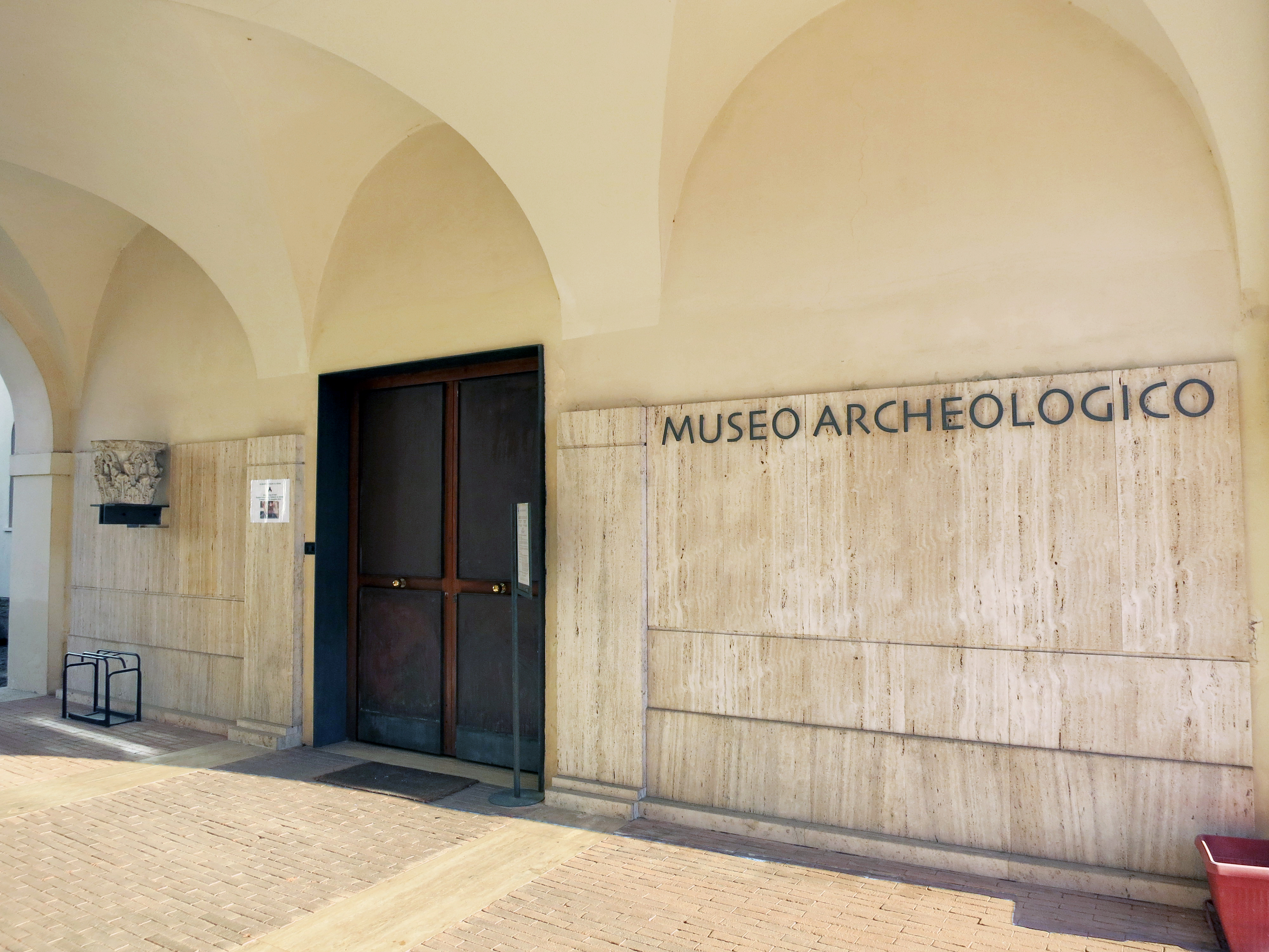 Entrance to the archaeological section of Civic Museum, in the former monastery of Santa Lucia - Rieti (Lazio, Italy)